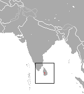 Sri Lankan Long-tailed Shrew (Crocidura miya) range